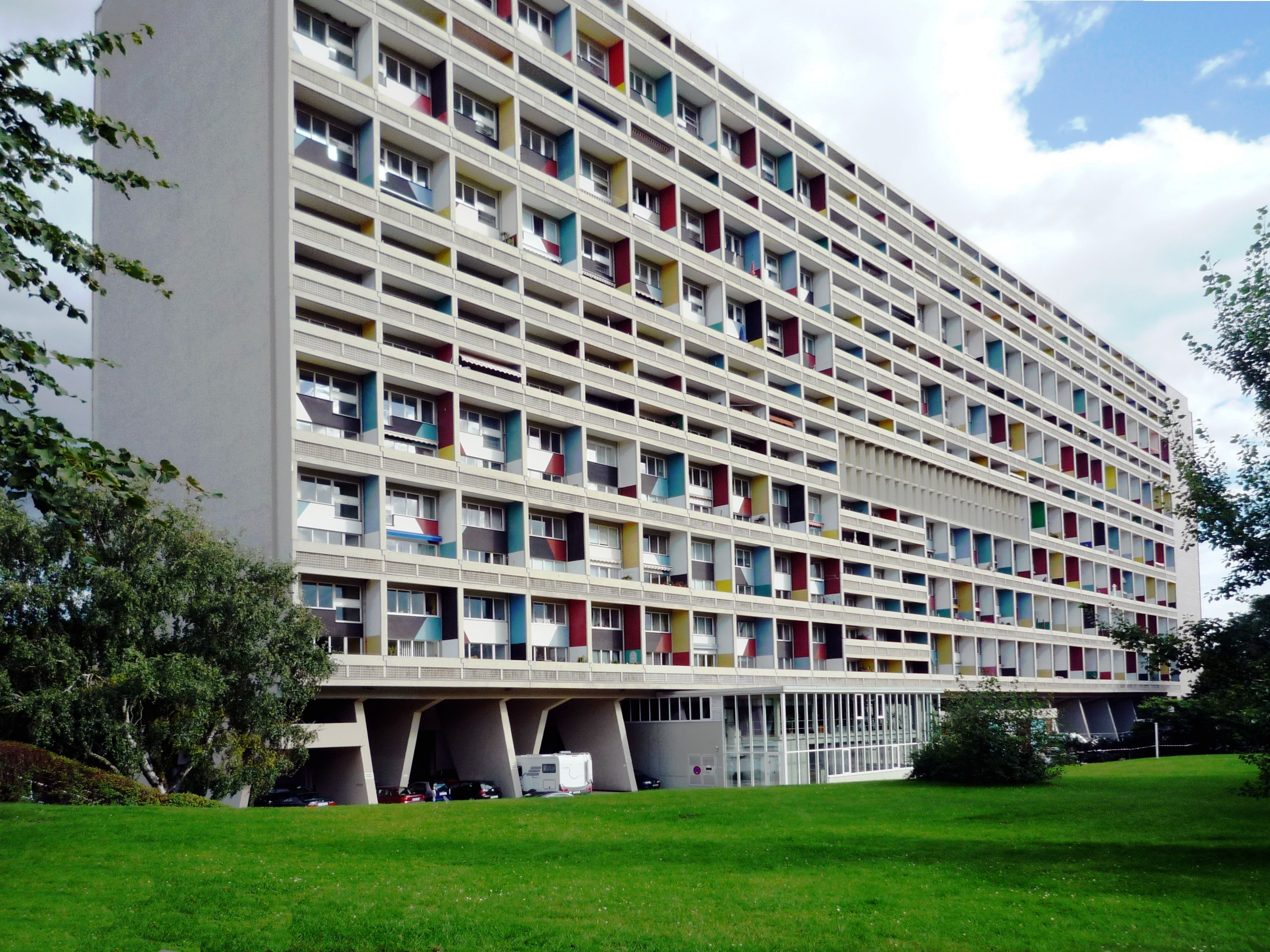 The "Corbusierhaus" in Berlin (Unité d'Habitation, type berlin). Built for a international exhibition (Interbau) in 1957. Architect: Le Corbusier.